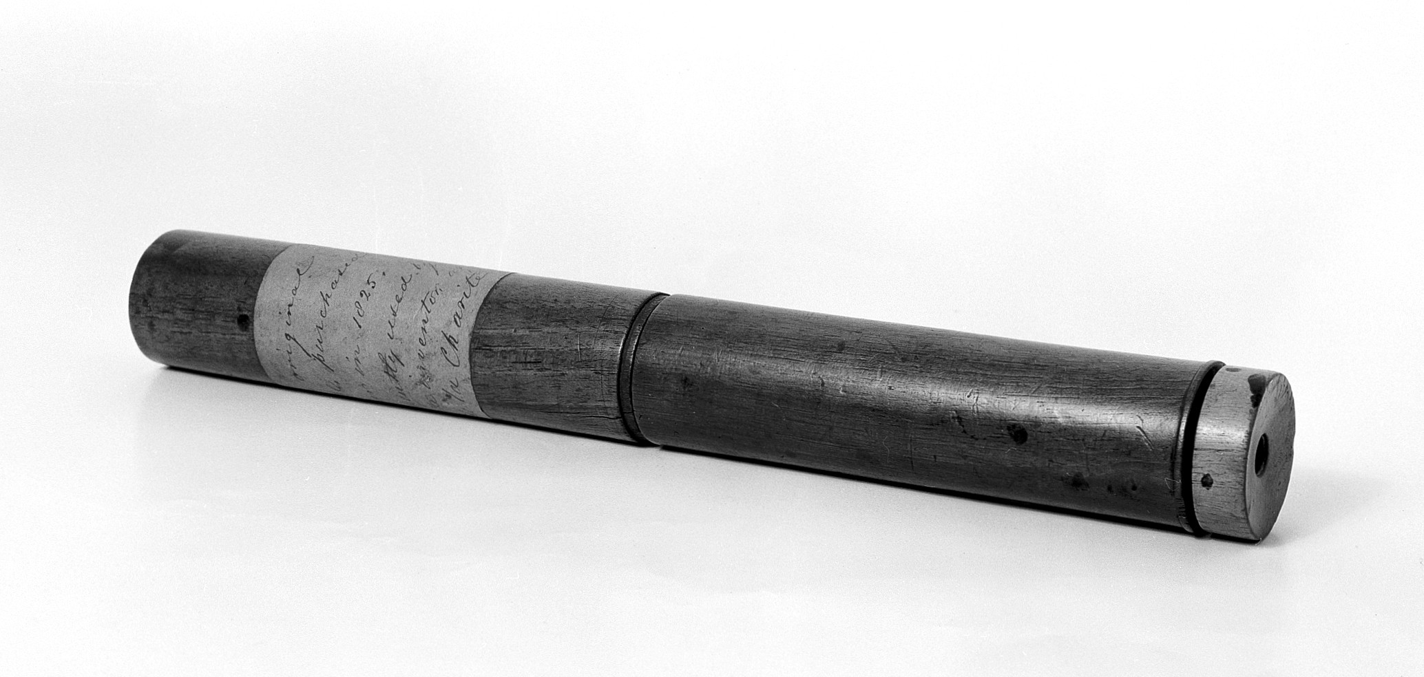 Monaural stethoscope of the Laennec type, purchased by W.W. Fisher in 1825. Wellcome Images